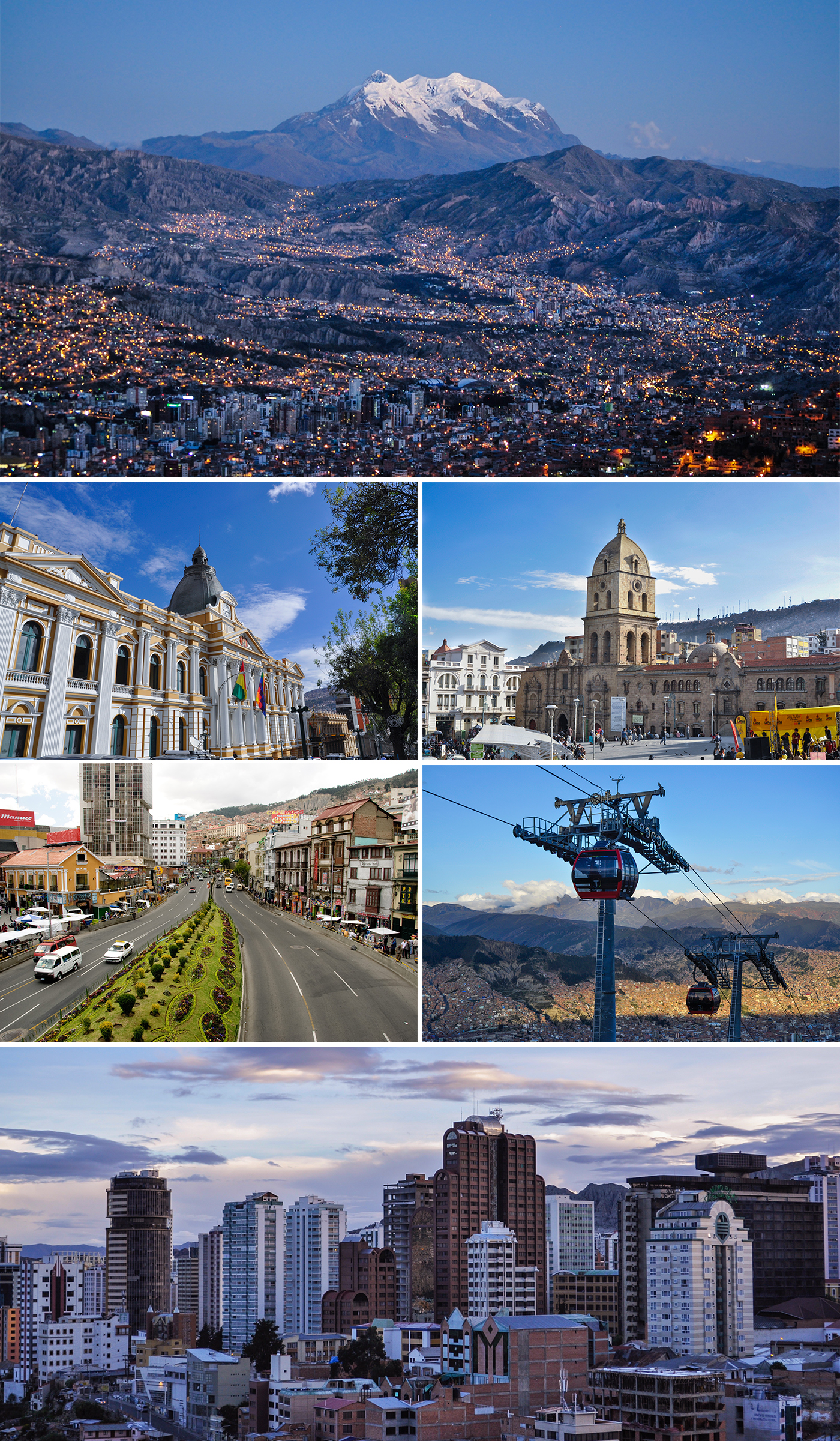 Montage of La Paz, Bolivia.